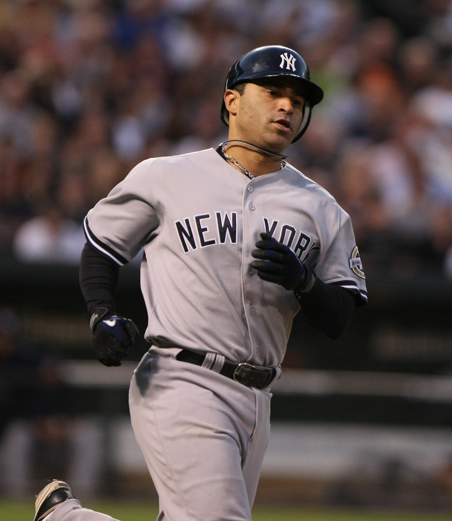 Jerry Hairston, Jr.